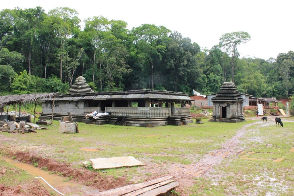 Umameshwara temple at Hosagunda, near Sagara, Shivamogga Dist, Karanataka